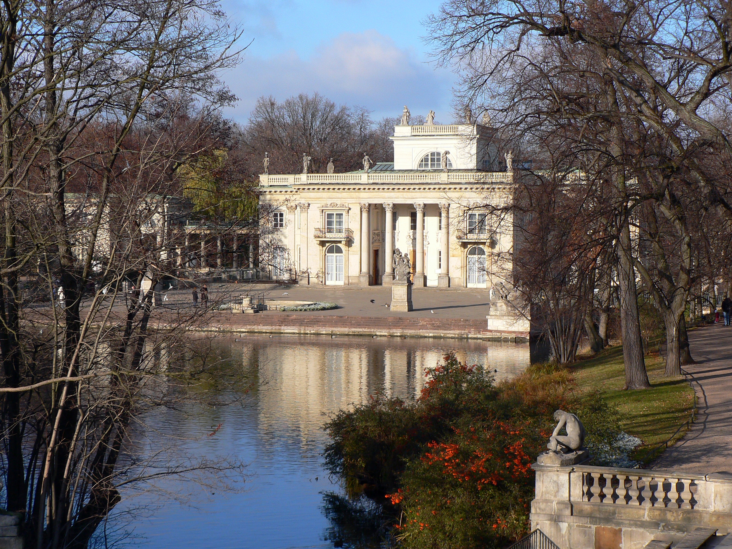 Łazienki Palace, Warsaw, Poland